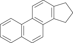 Structure of the cyclopentanophenantren